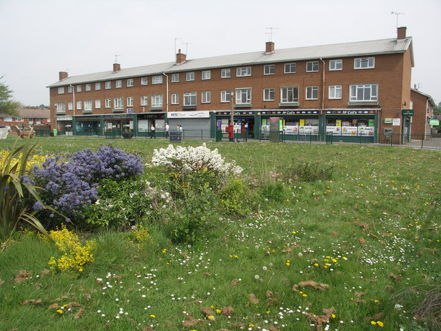 "The Parade" at Hillbourne This row of shops, opposite the green, includes two Chinese take-away restaurants!